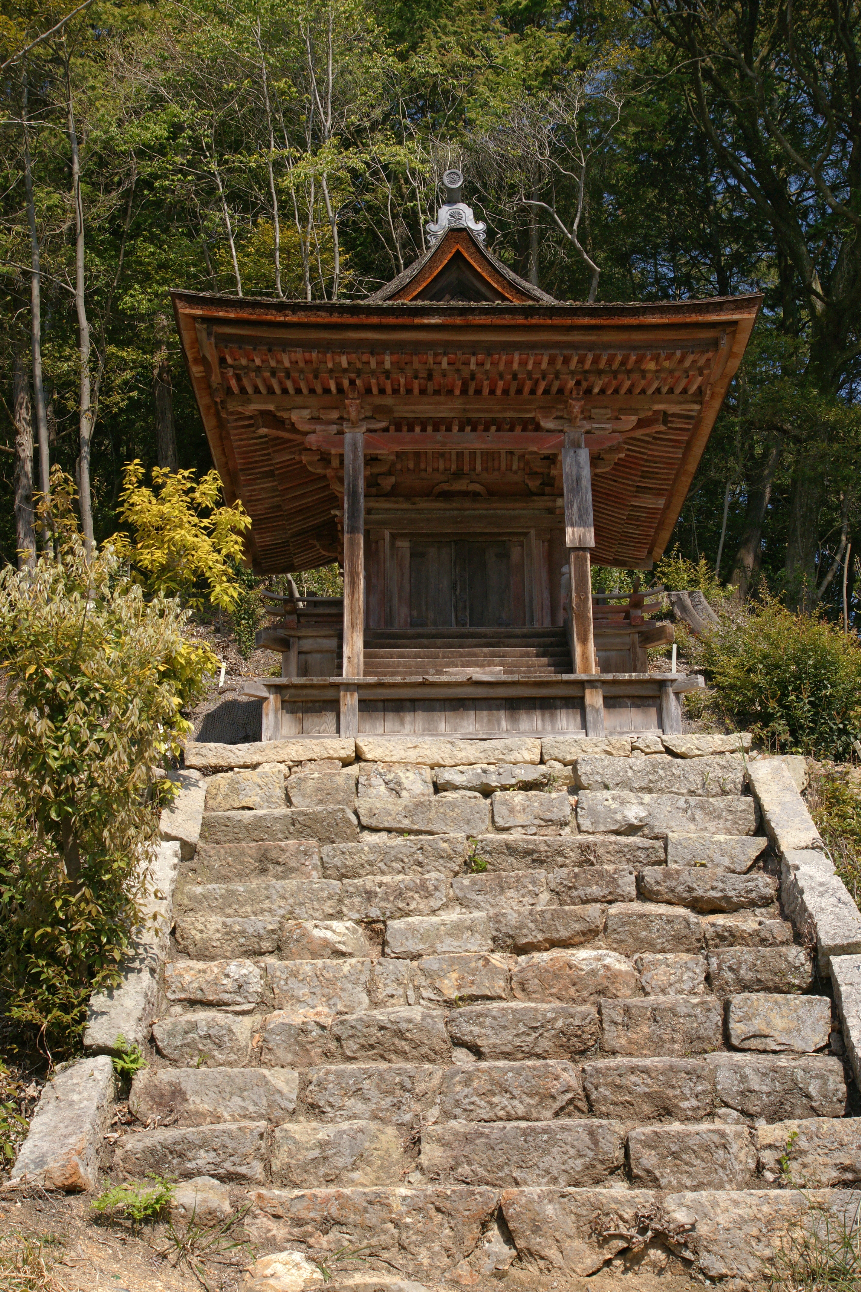 Ichijoji in Kasai, Hyogo prefecture, Japan